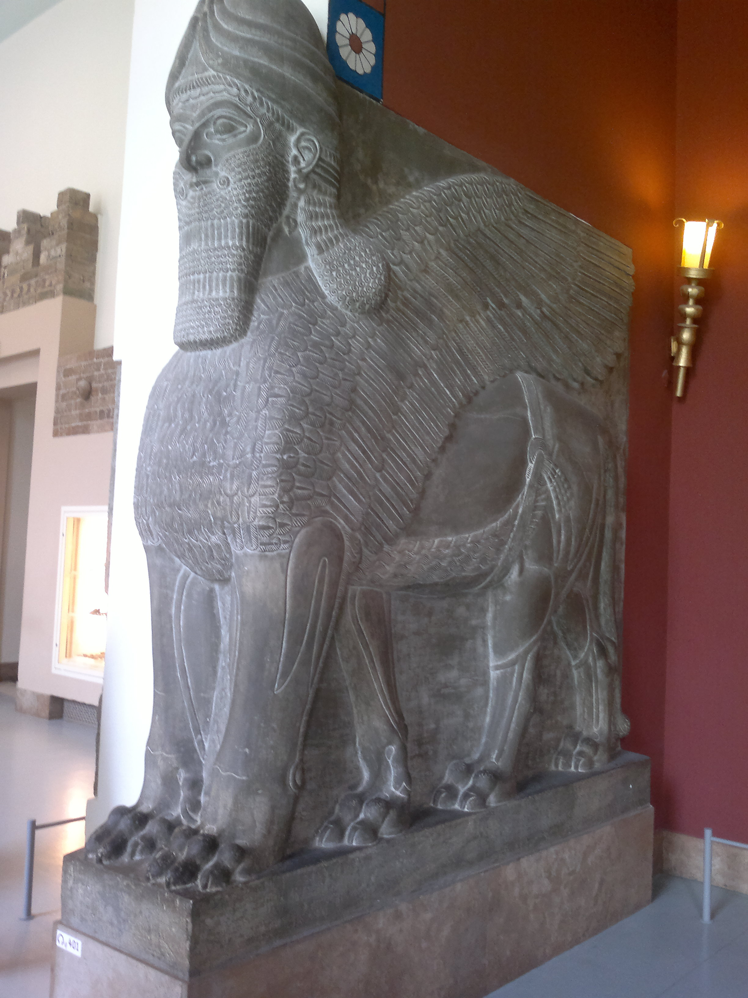 Door guardian figure (Lamassu) from Nimrud. Reign of Ashurnasirpal II (883-859 BC). Alabaster, plaster, height 3.13 cm. Pergamon Museum, Berlin